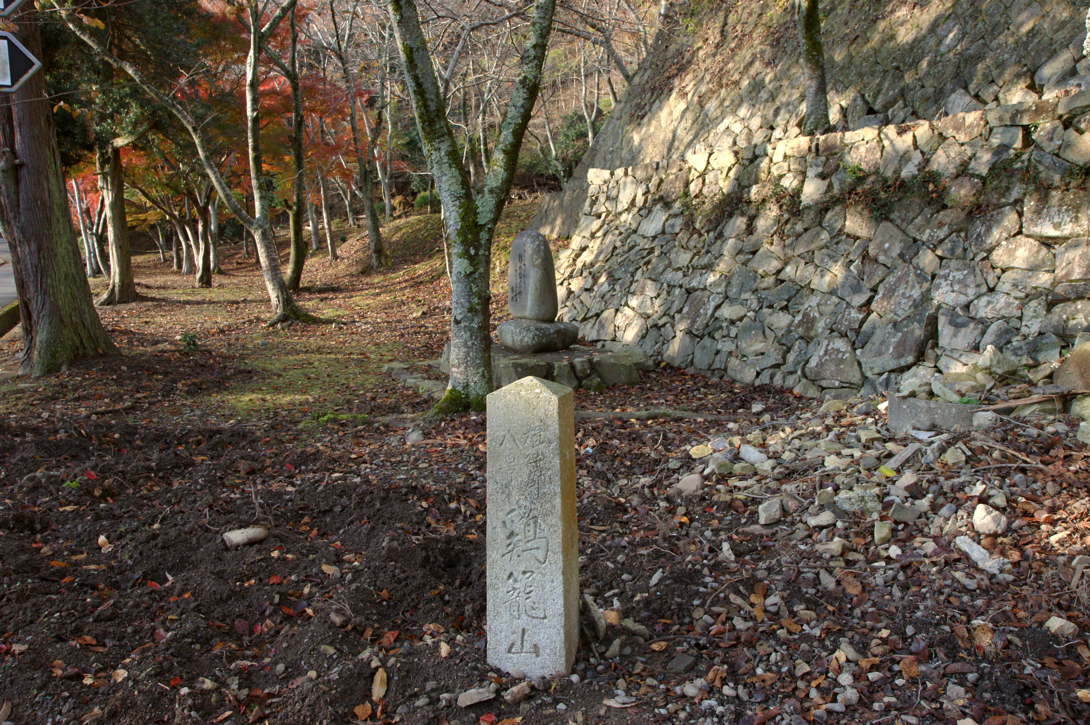 Tatsuno Park, Tatsuno, Hyogo prefecture, Japan